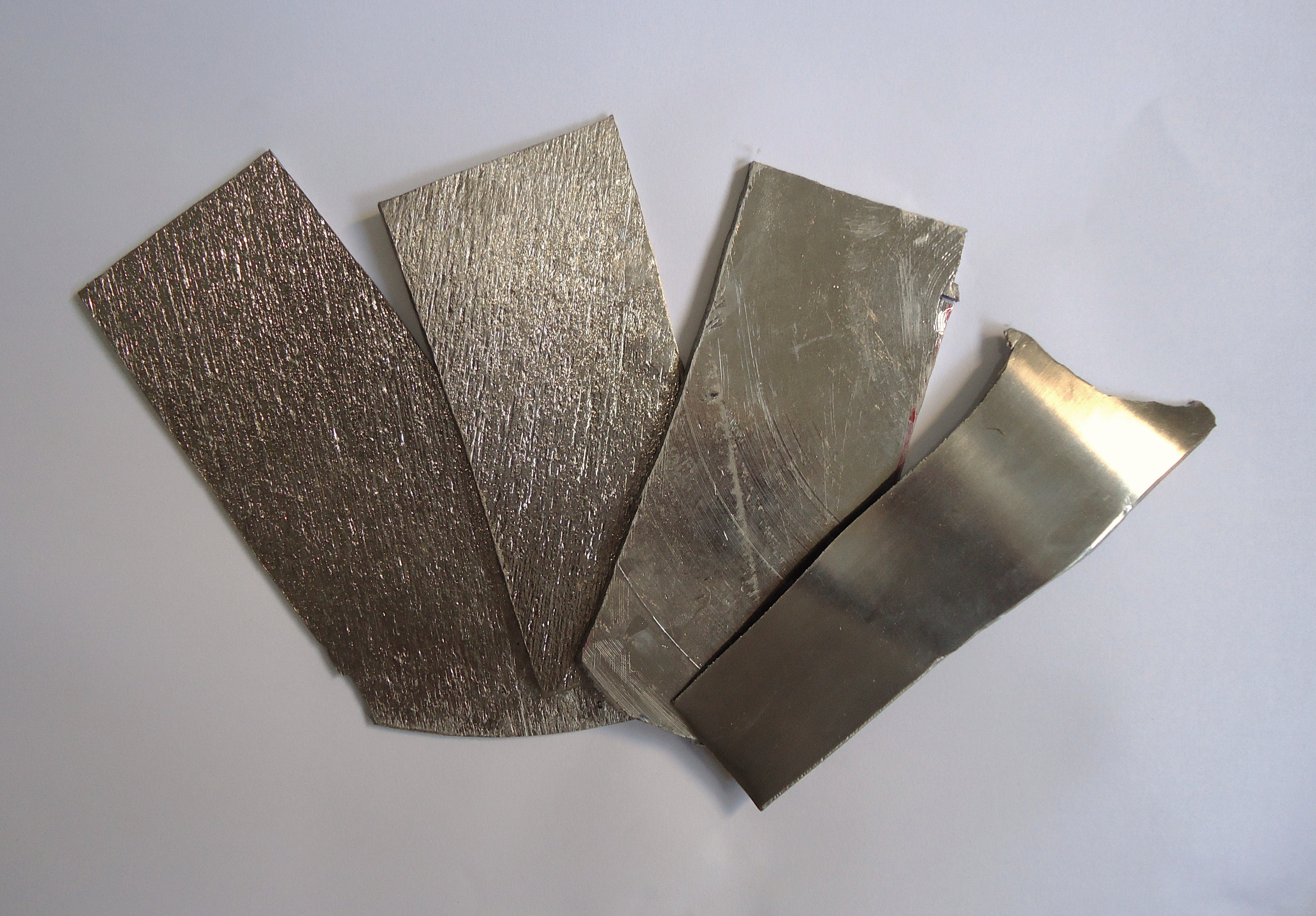 Niobium strips. Photo: Mauro Cateb